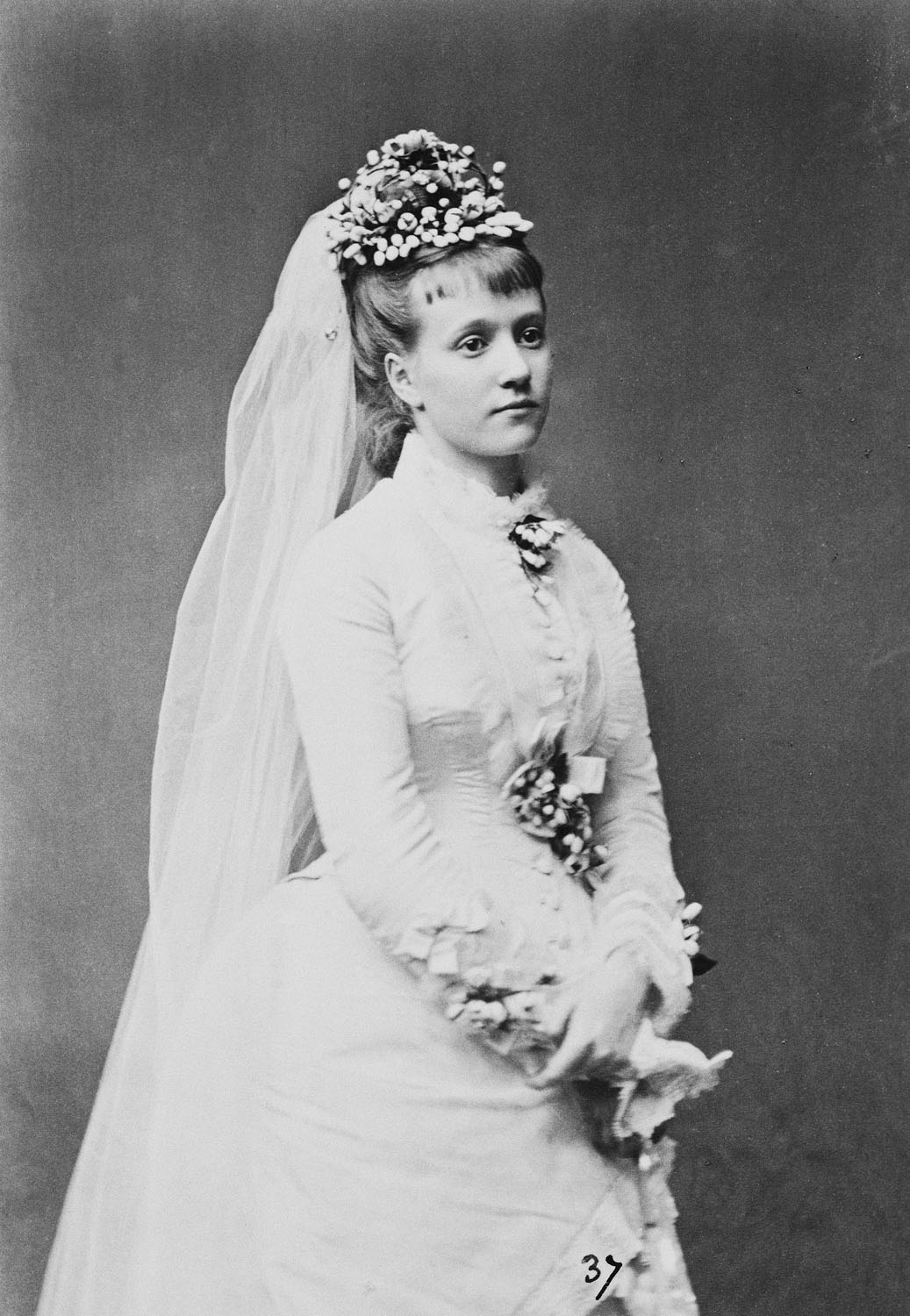 Aldegundes of Portugal, as Countess of Bardi, c. 1876